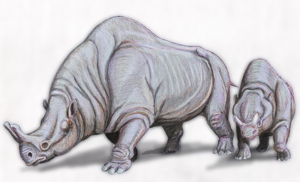 A pair of Megacerops coloradensis